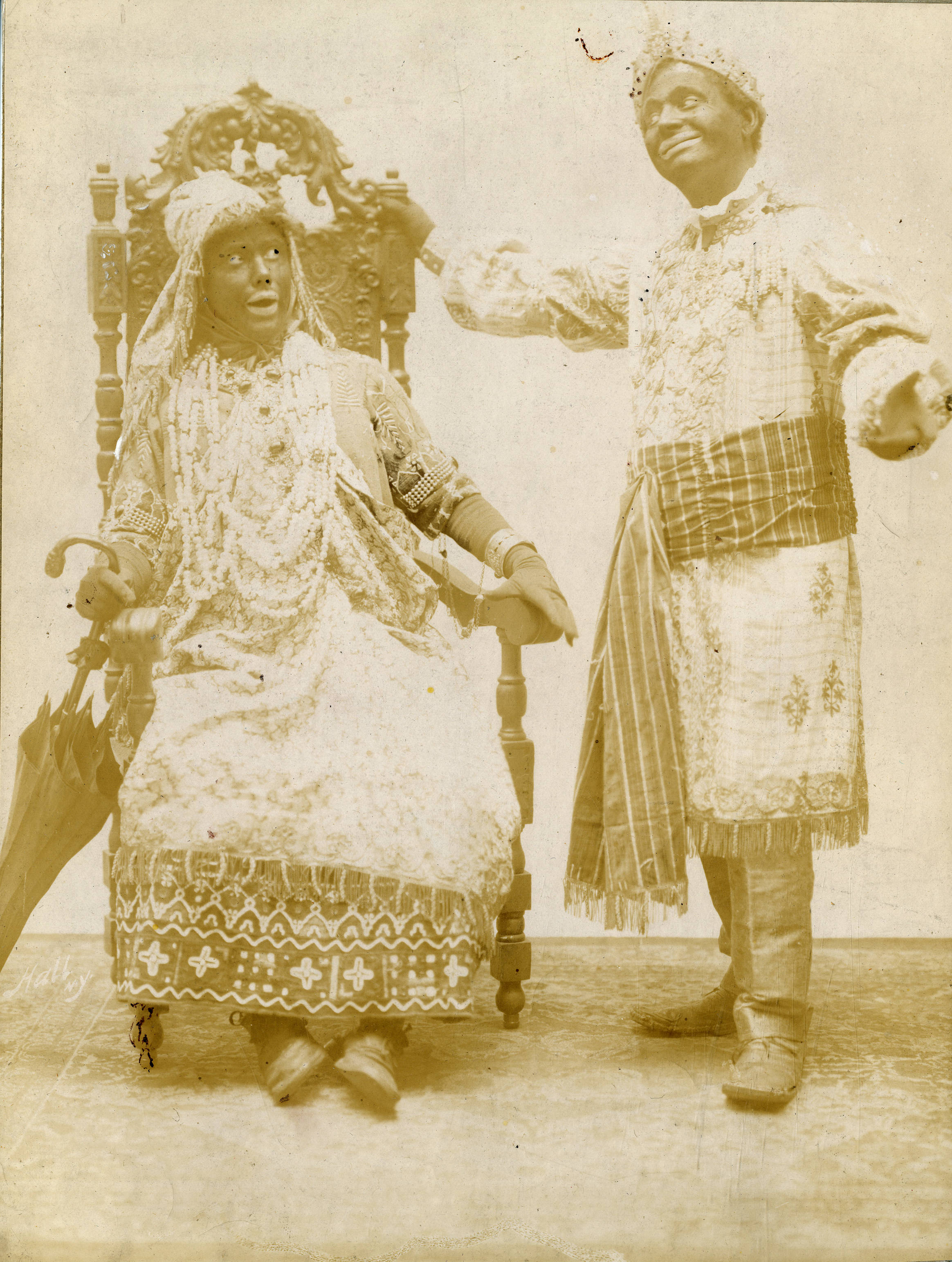 A scene from "The Ham Tree," which opened Feb. 17, 1907, at the Grand Opera House, Seattle. Includes James McIntyre and Thomas Heath. Subjects: plays, entertainers, actors